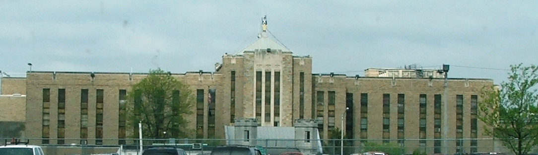 The front of Auburn Correctional Facility.